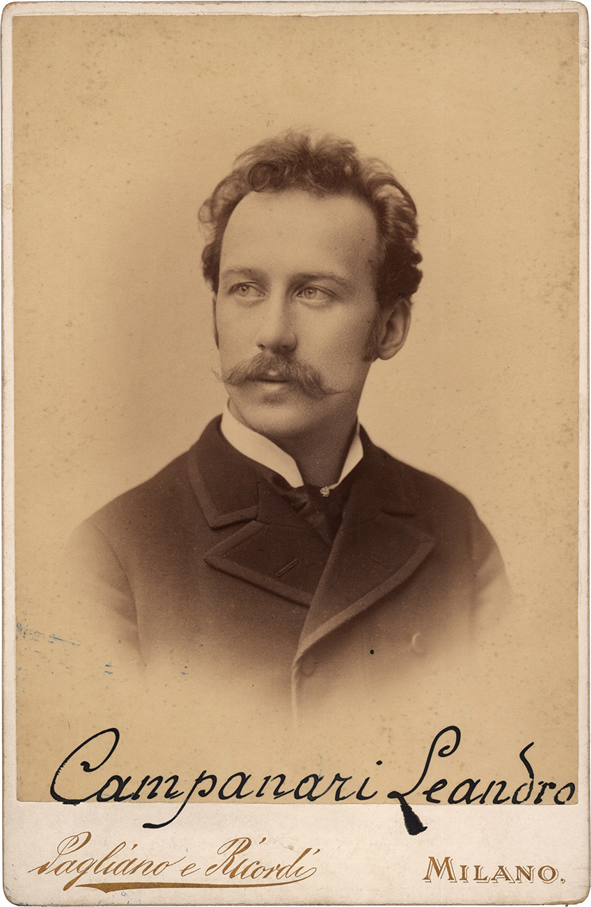 Portrait of Leandro Campanari, conductor (1857-1939). Photo by Pagliano & Ricordi, before 1939.